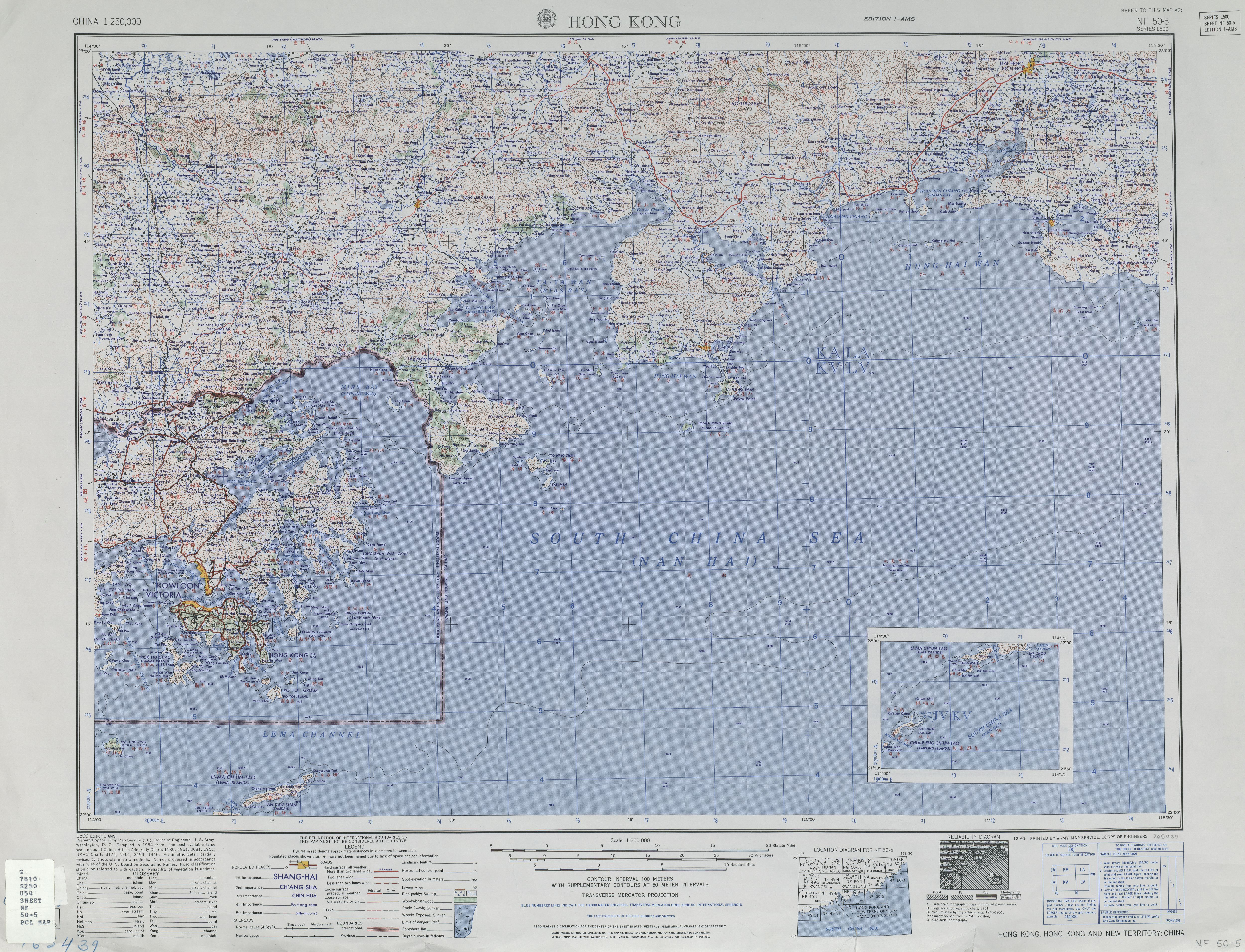 Hong Kong and Canton Province Map 1954.